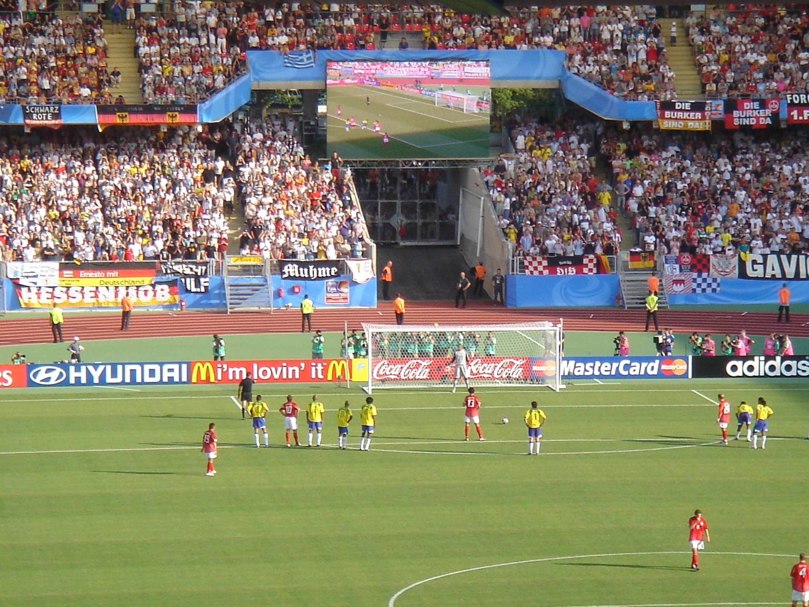 2005 Confederations Cup, Micheal Ballack (Germany) taking a penalty against Brazil in injury time at the end of the first half